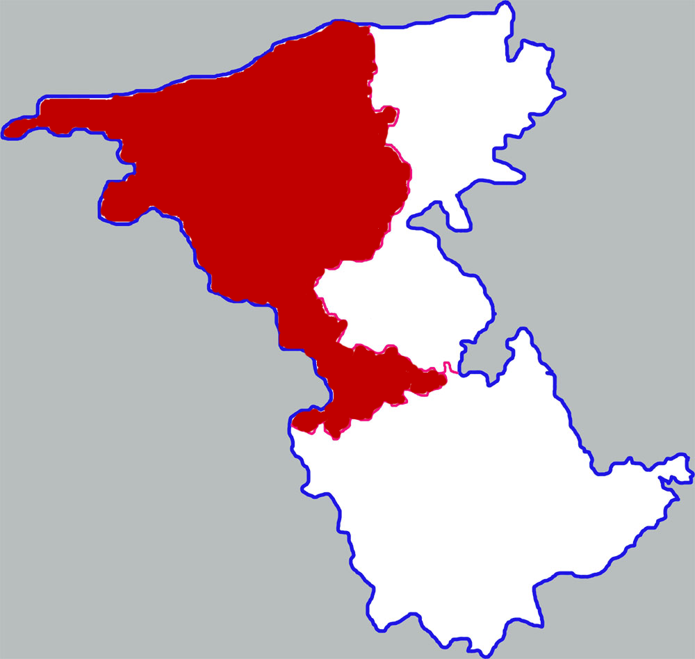 Location of Shapotou district in Zhongwei city, China